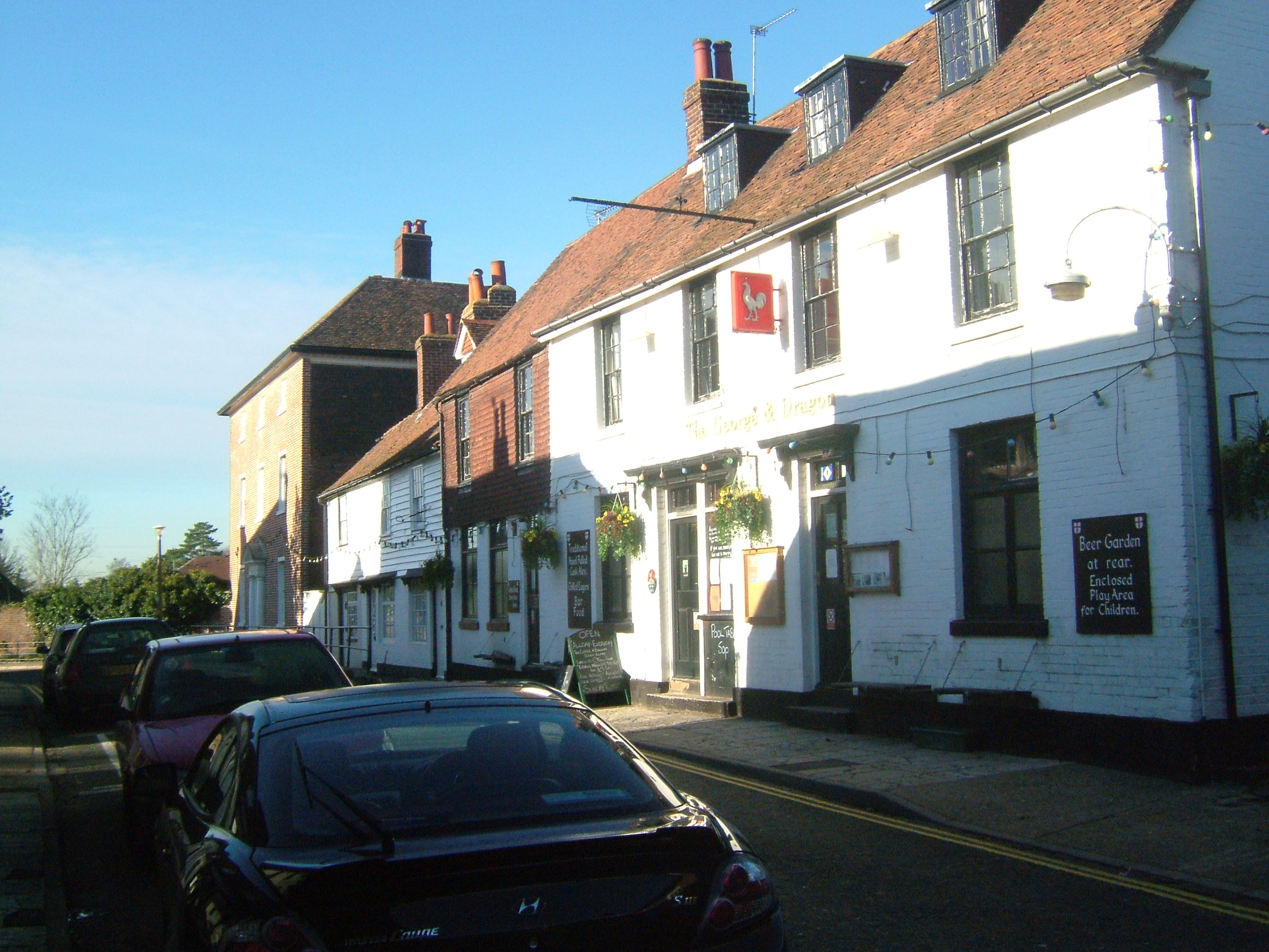 Wrotham in Kent, is a parish in Kent, England, south of Gravesend. The George and Dragon. - OpenStreetMap (Info)